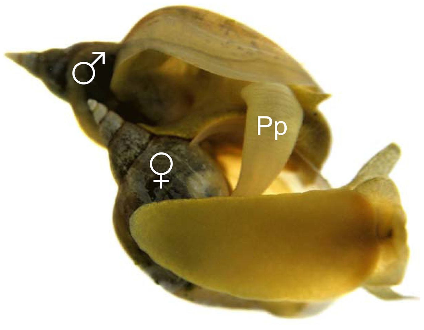 Mating of Lymnaea stagnalis. Pp is preputium = penis-carrying organ of a male role snail that transfers sperm to female role snail opening.